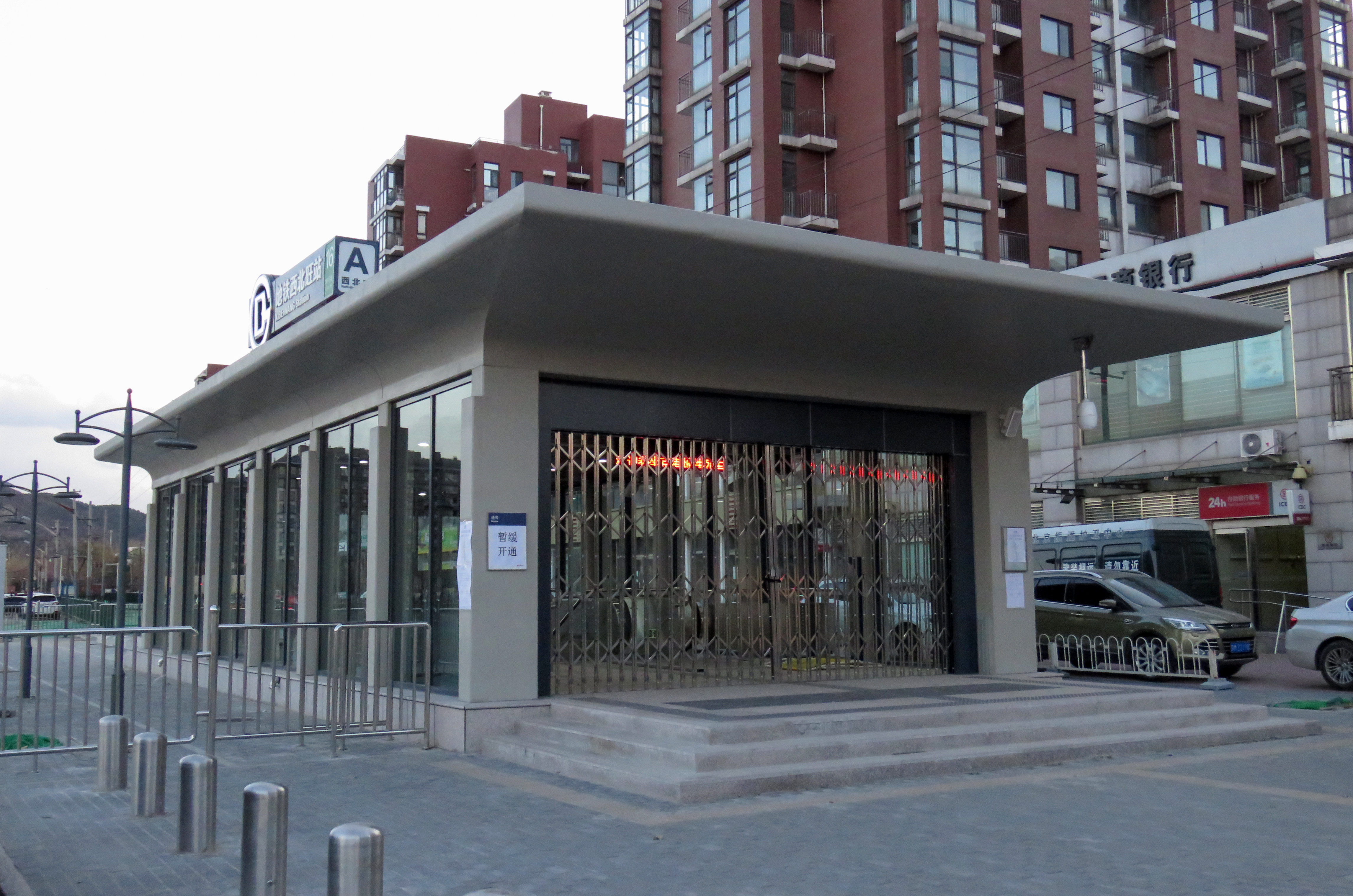 Temporary administration started on 17 November 2017. So, when will it open to public?